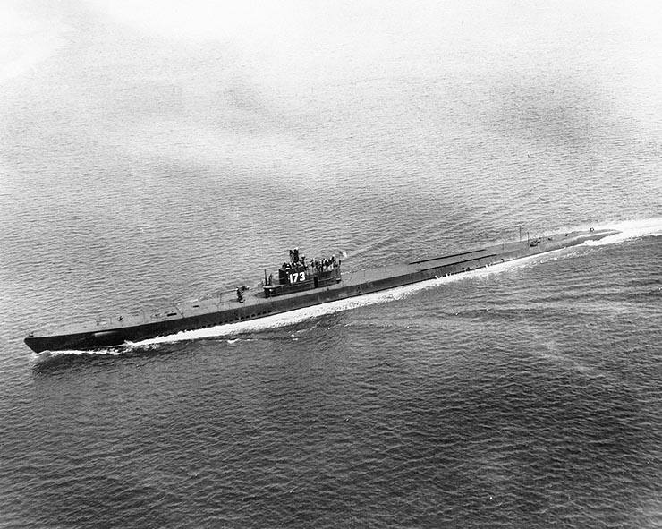 USS Pike (SS-173) underway off New London, Connecticut, while serving as a training submarine, 5 May 1944. Original caption: “Photo # 80-G-233813 USS Pike underway off New London, Connecticut, 5 May 1944” — removed caption